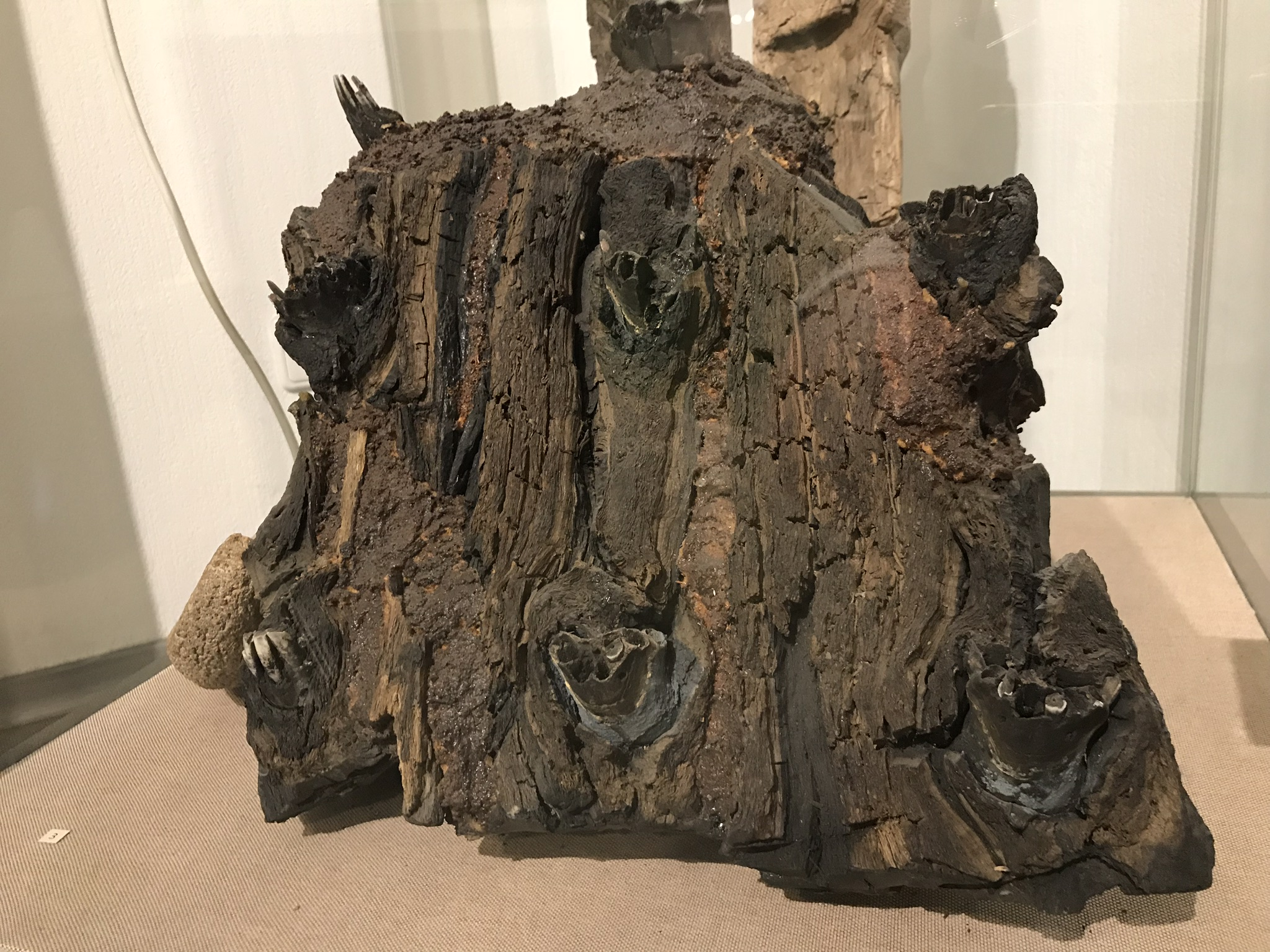 Paganism of the 9th–10th cent. Kyiv History Museum • Oak of Perun (god of thunder)